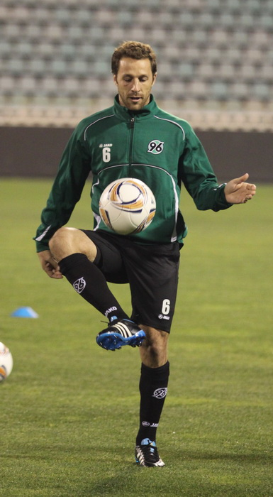 Steve Cerundolo Players of Hannover 96